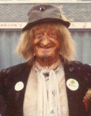 For more information about our equipment, officers and police work over the last 40 years, visit our 40th Anniversary blog at